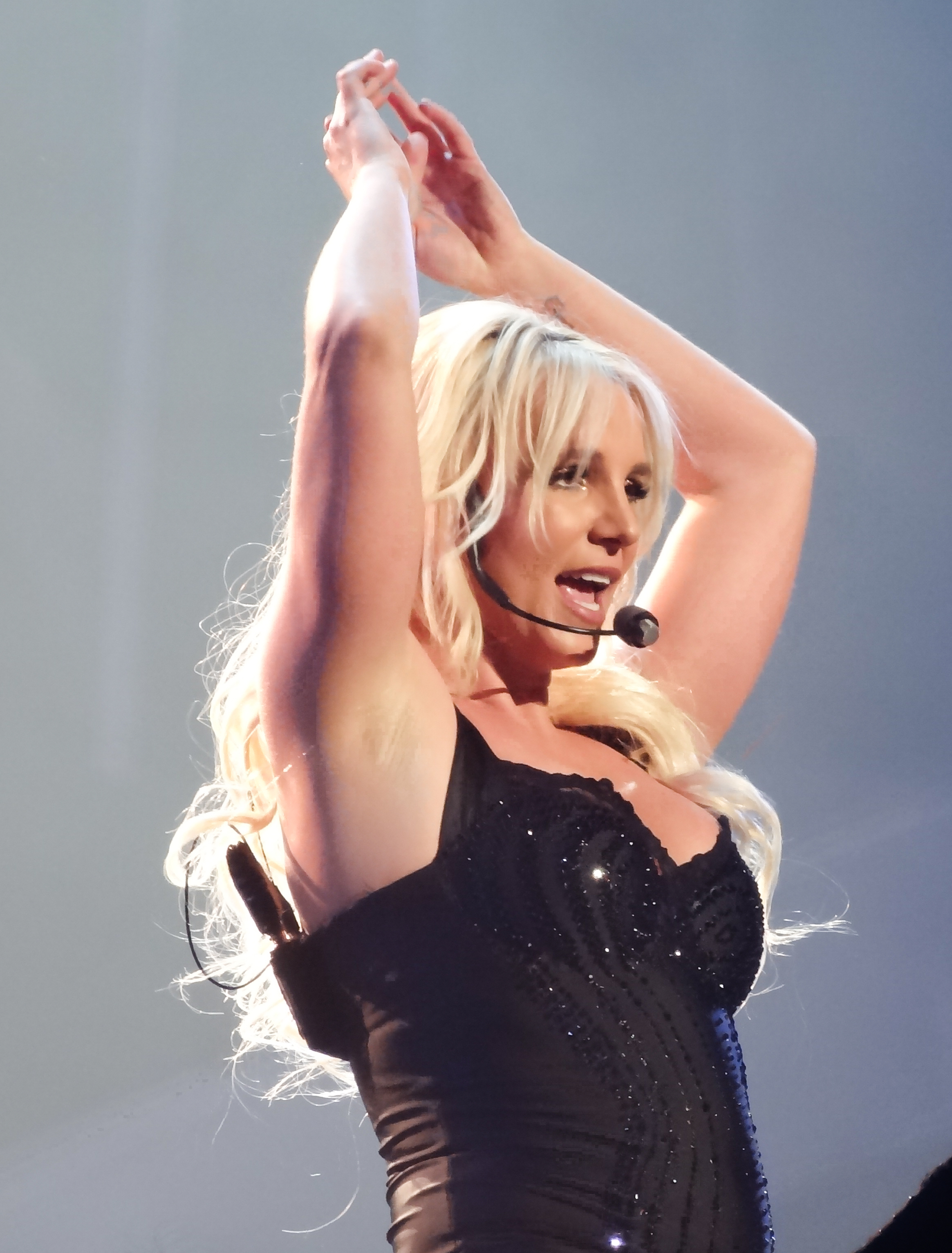 ...Baby One More Time